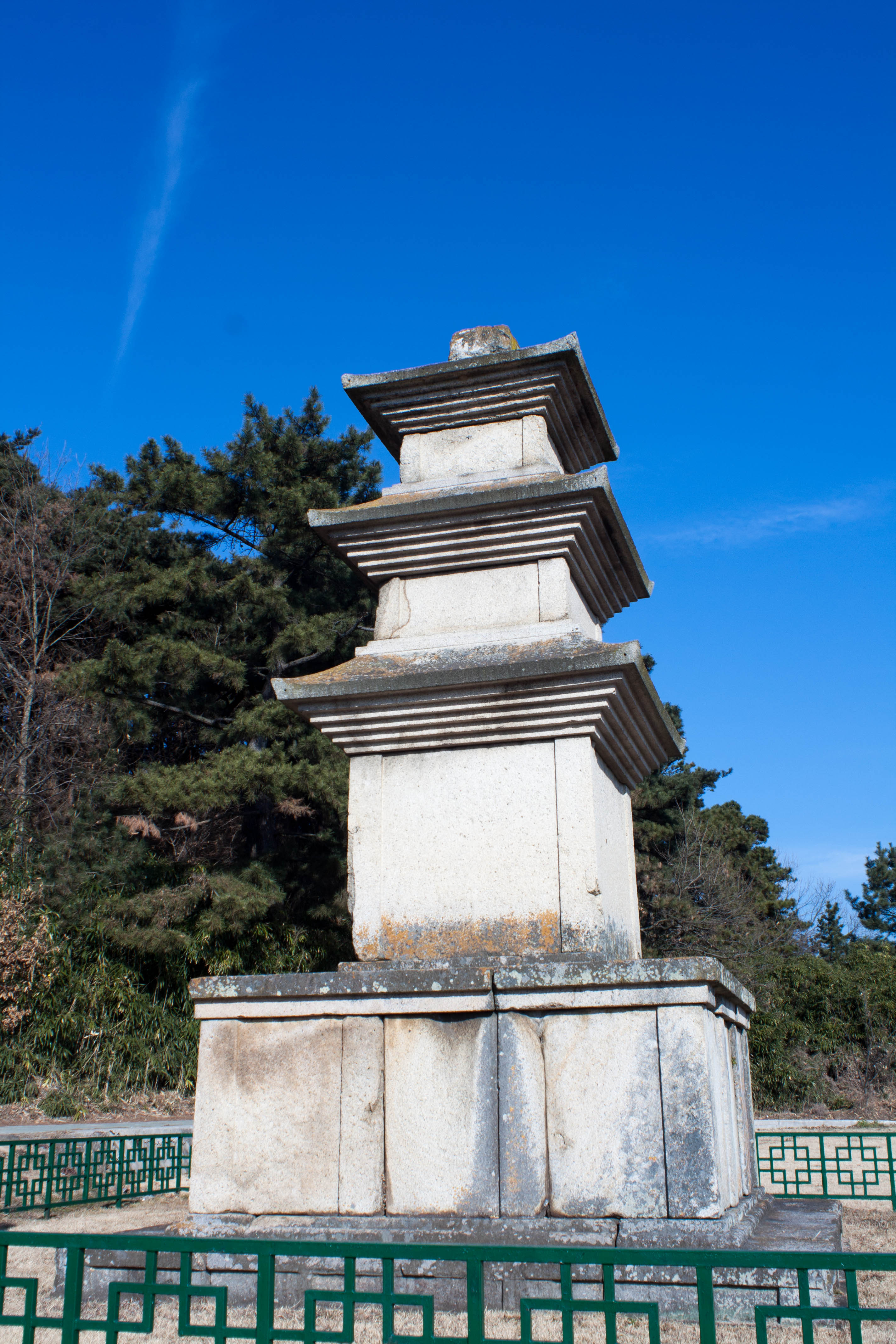 Three-story Stone Pagoda at Hwangboksa Temple site in Gyeongju, Korea